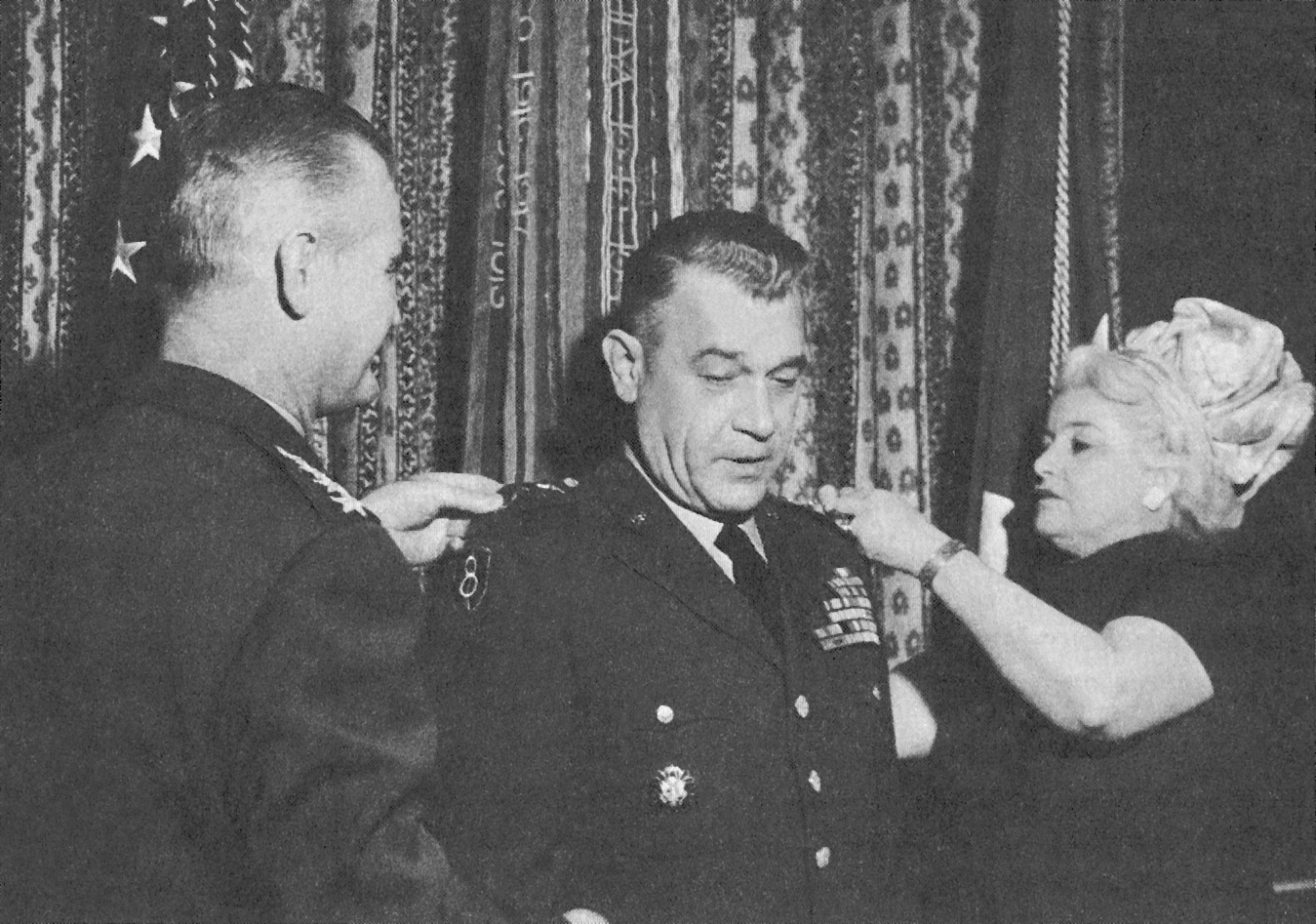 Original caption: Gen. William C. Westmoreland, Chief of Staff, U.S. Army, and Mrs. Chesarek pin the fourth star on the shoulders of Gen. Ferdinand J. Chesarek, Commanding General, U.S. Army Materiel Command, Washington, D. C. Gen. Chesarek succeeds Gen. Frank S. Besson Jr., who is now Chairman, Joint Logistic Review Board.